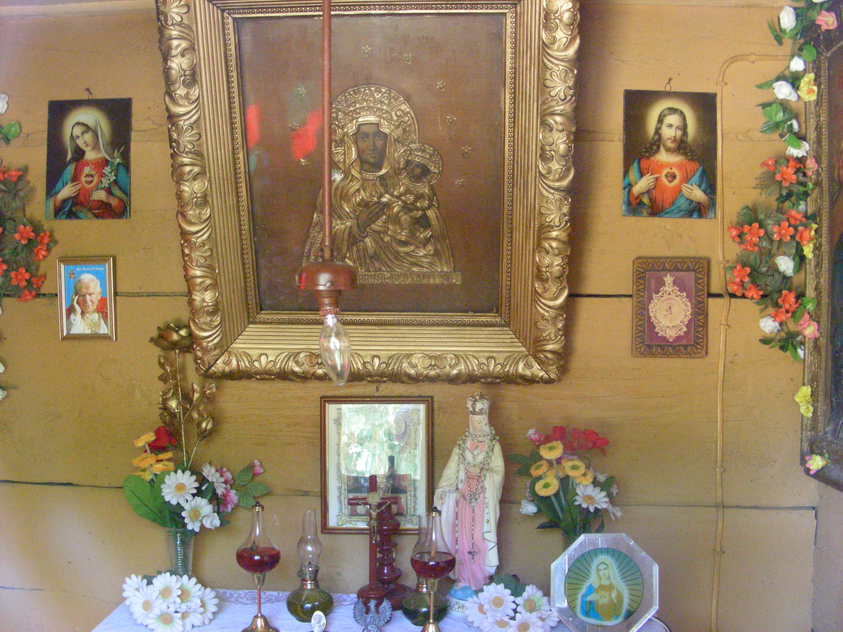 Ancient antique wayside small chapel, 1851, inside view, Wola Rafałowska, Poland 1851_inside_view.JPG